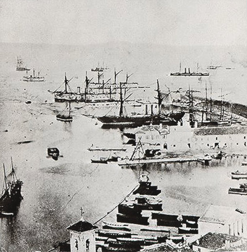 Italian fleet in Ancona after battle of Lissa (1866).